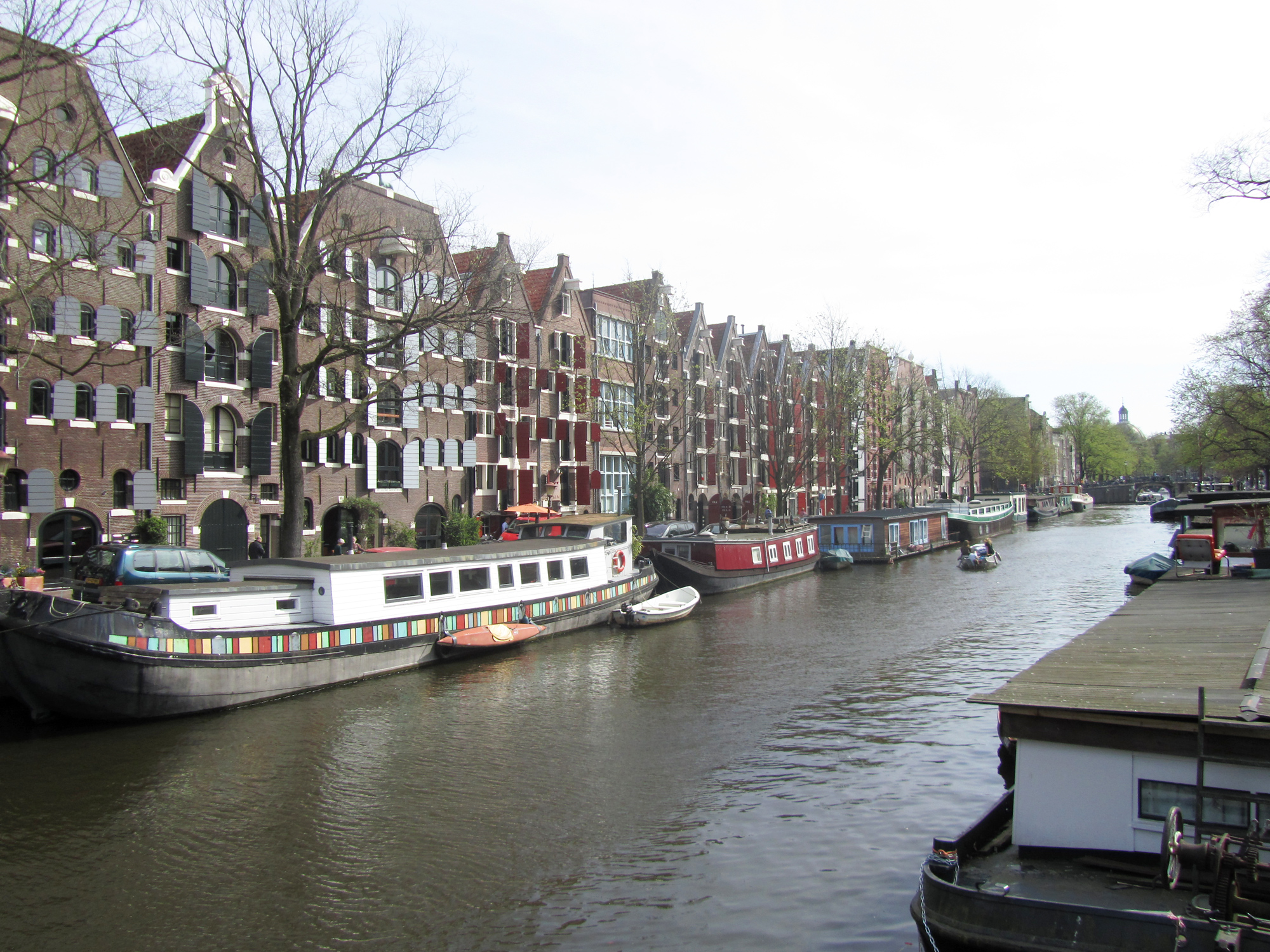 Brouwersgracht canal in Amsterdam. This is an image of rijksmonument number 791 This is an image of rijksmonument number 792 This is an image of rijksmonument number 793 This is an image of rijksmonument number 794 This is an image of rijksmonument number 795 This is an image of rijksmonument number 796 This is an image of rijksmonument number 797